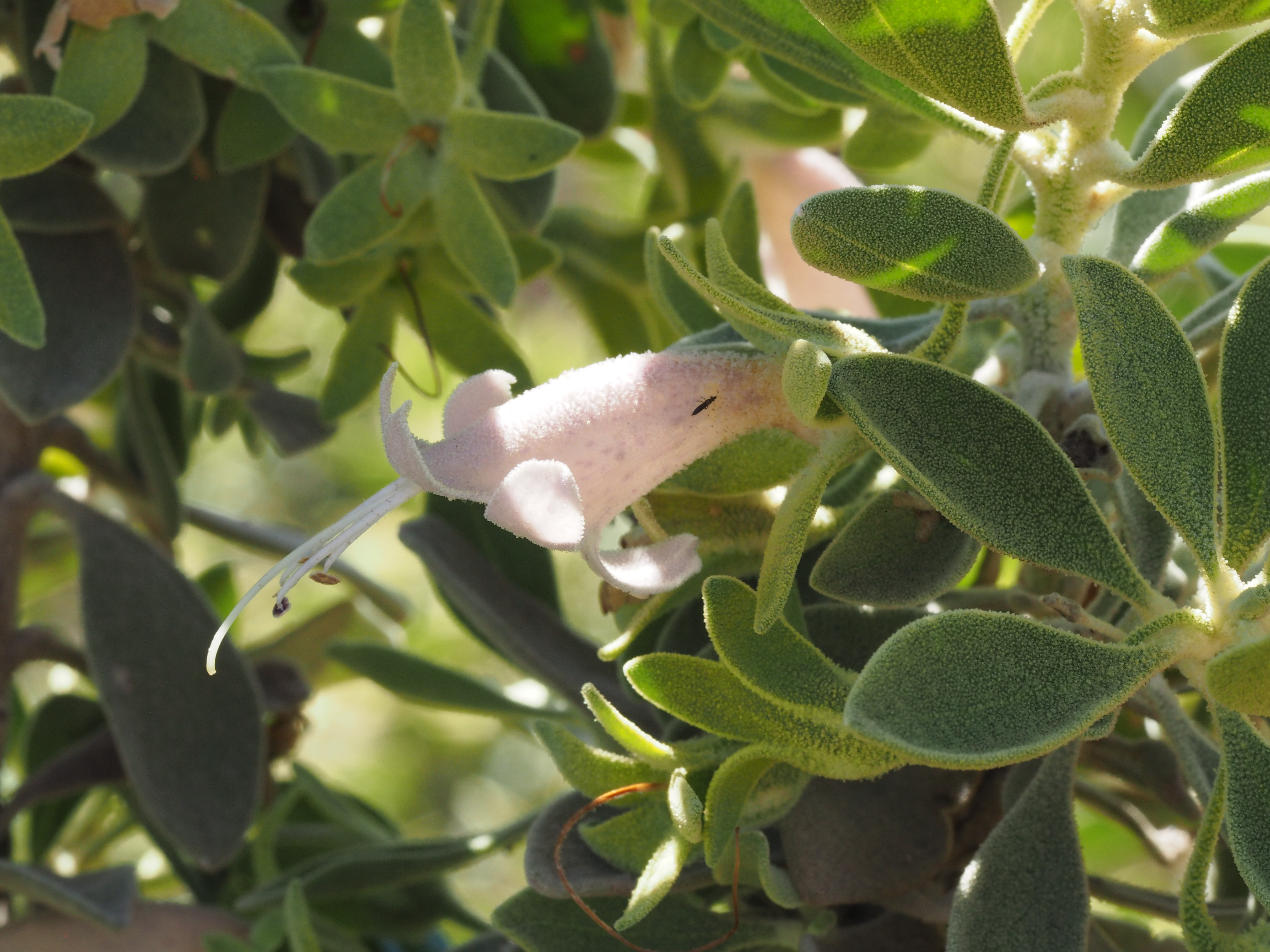 Comparison of Eremophila forrestii subspecies